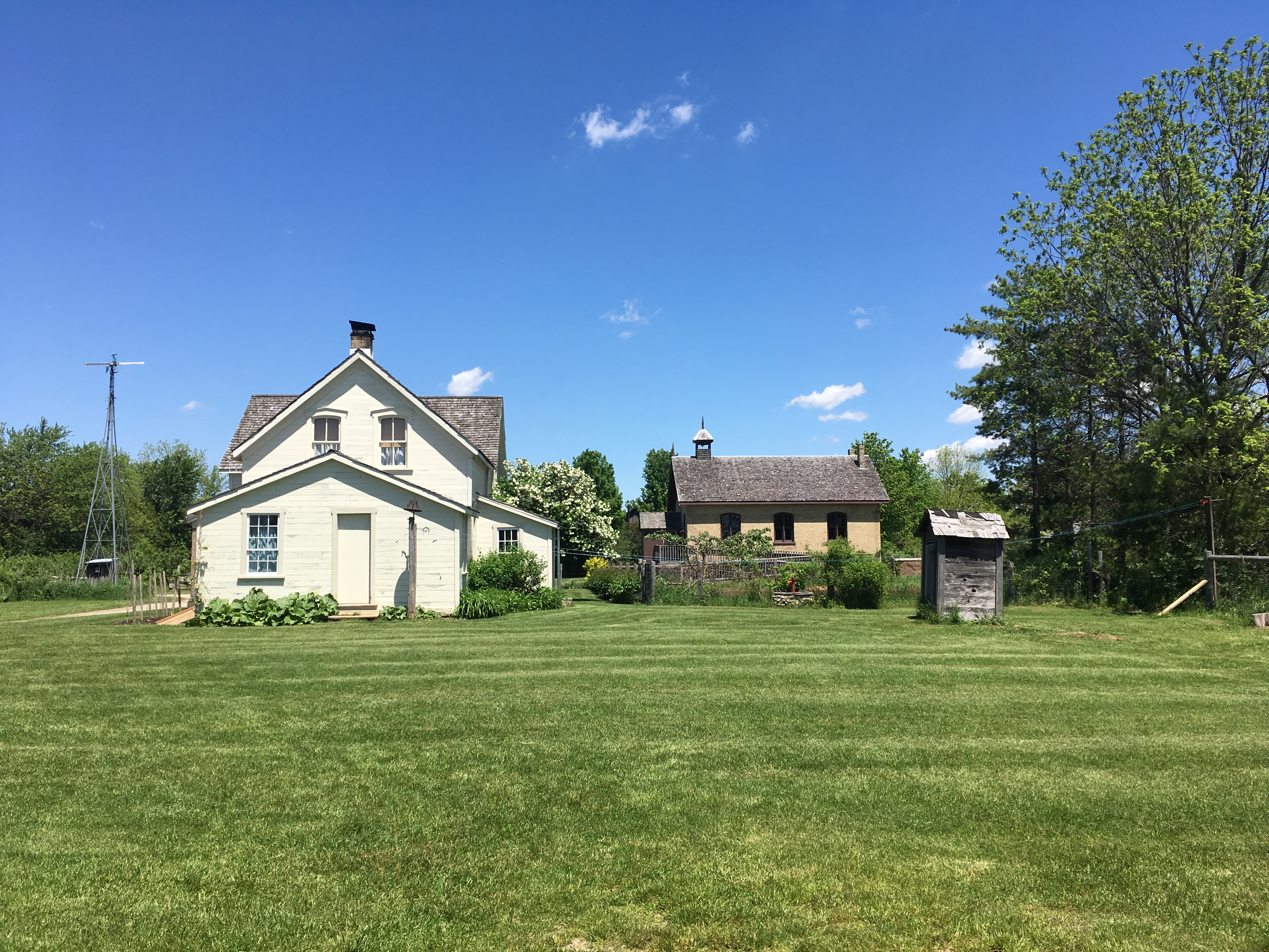 Jury family farmhouse at Fanshawe Pioneer Village, London, Ontario